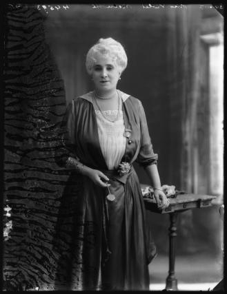 Portrait of Violet Melnotte (1855-1935) in 1918